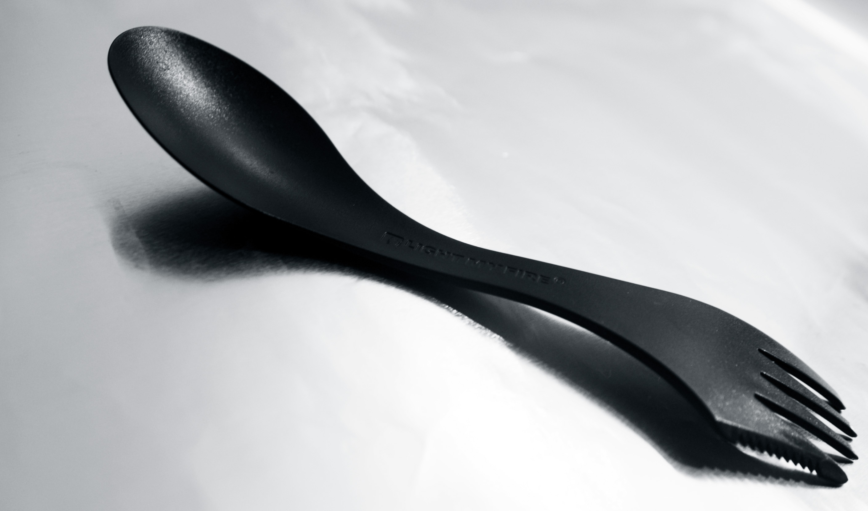 Plastic spork